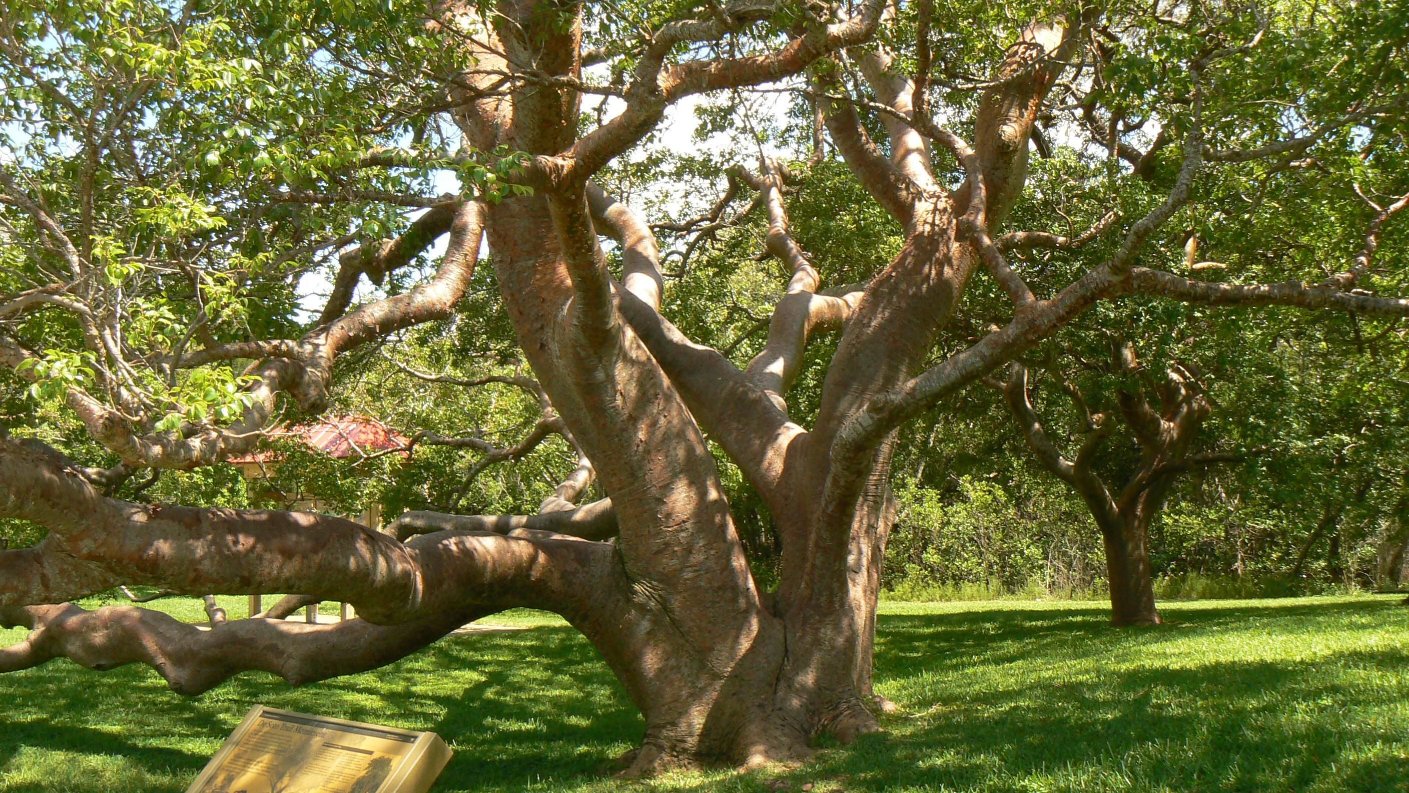 A large Gumbo Limbo tree at the DeSoto National Monument on Tampa Bay, Bradenton, Florida.